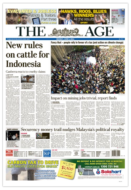 The front page of The Age on June 9, 2011